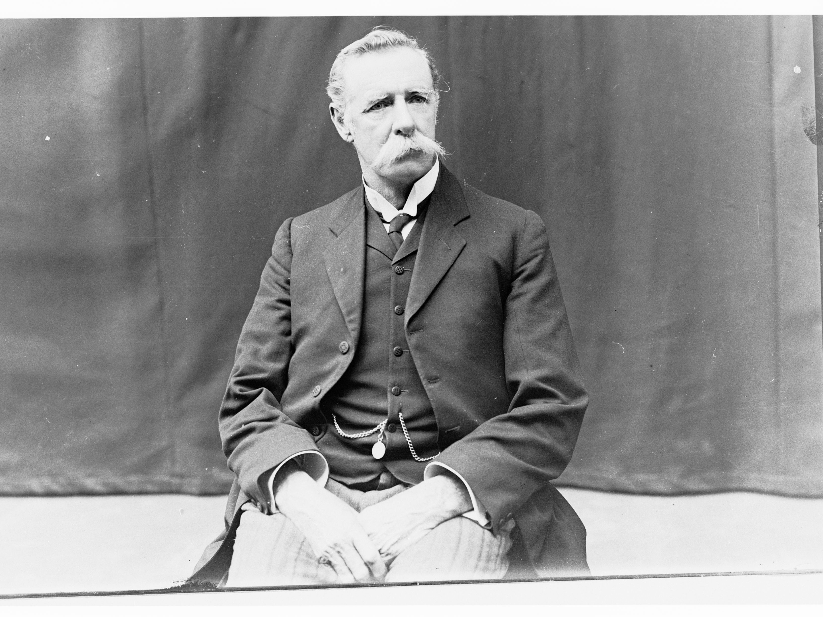 See Cyclopaedia of SA, Vol. I. (G Brooks)